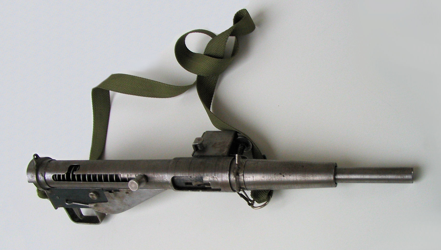 The replica of Polish submachine gun, KIS Aparat/Camera: Canon PowerShot A75